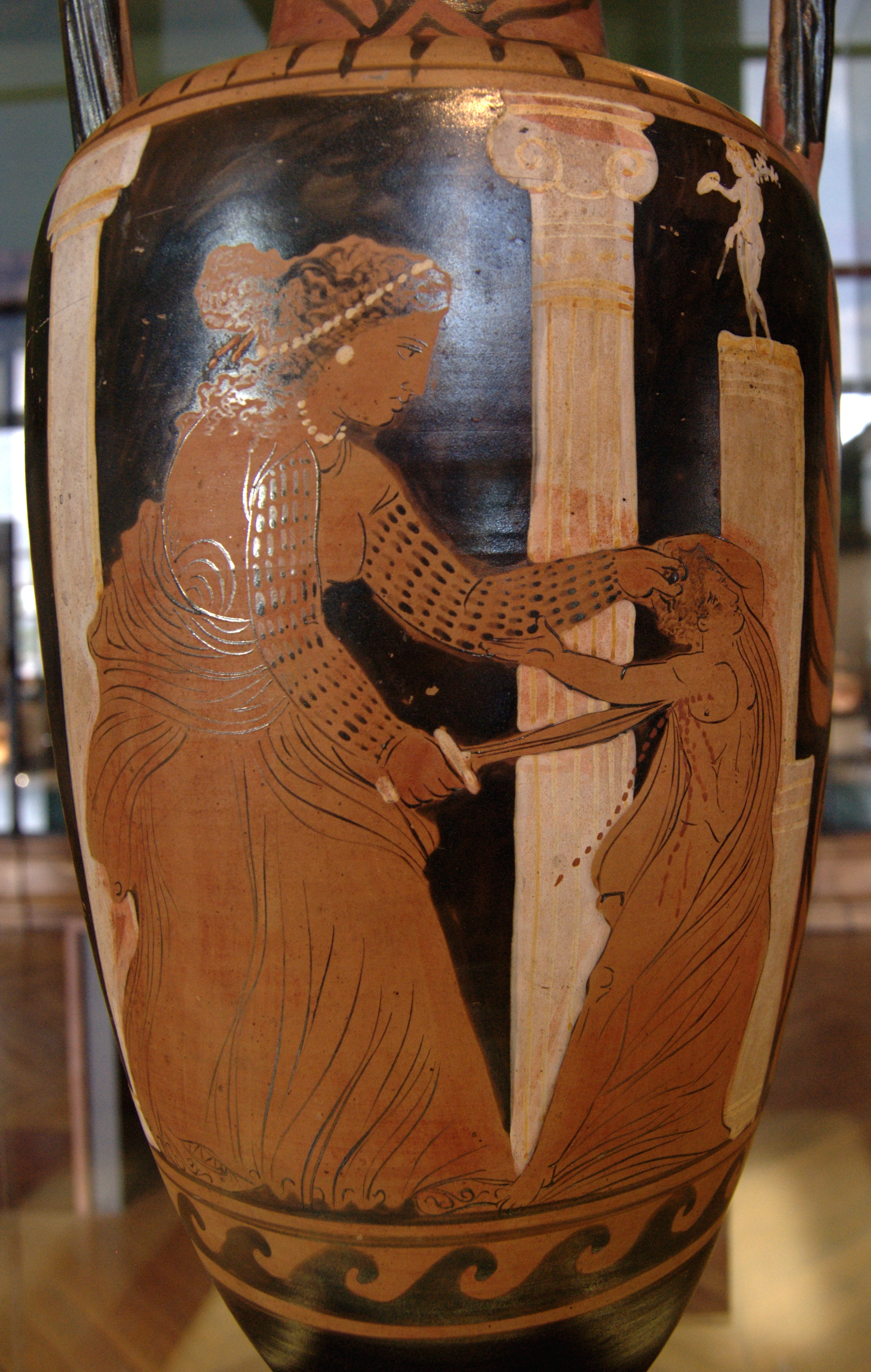 Medea killing one of her sons. Side A from a Campanian (Capouan) red-figure neck-amphora, ca. 330 BC. From Cumae.